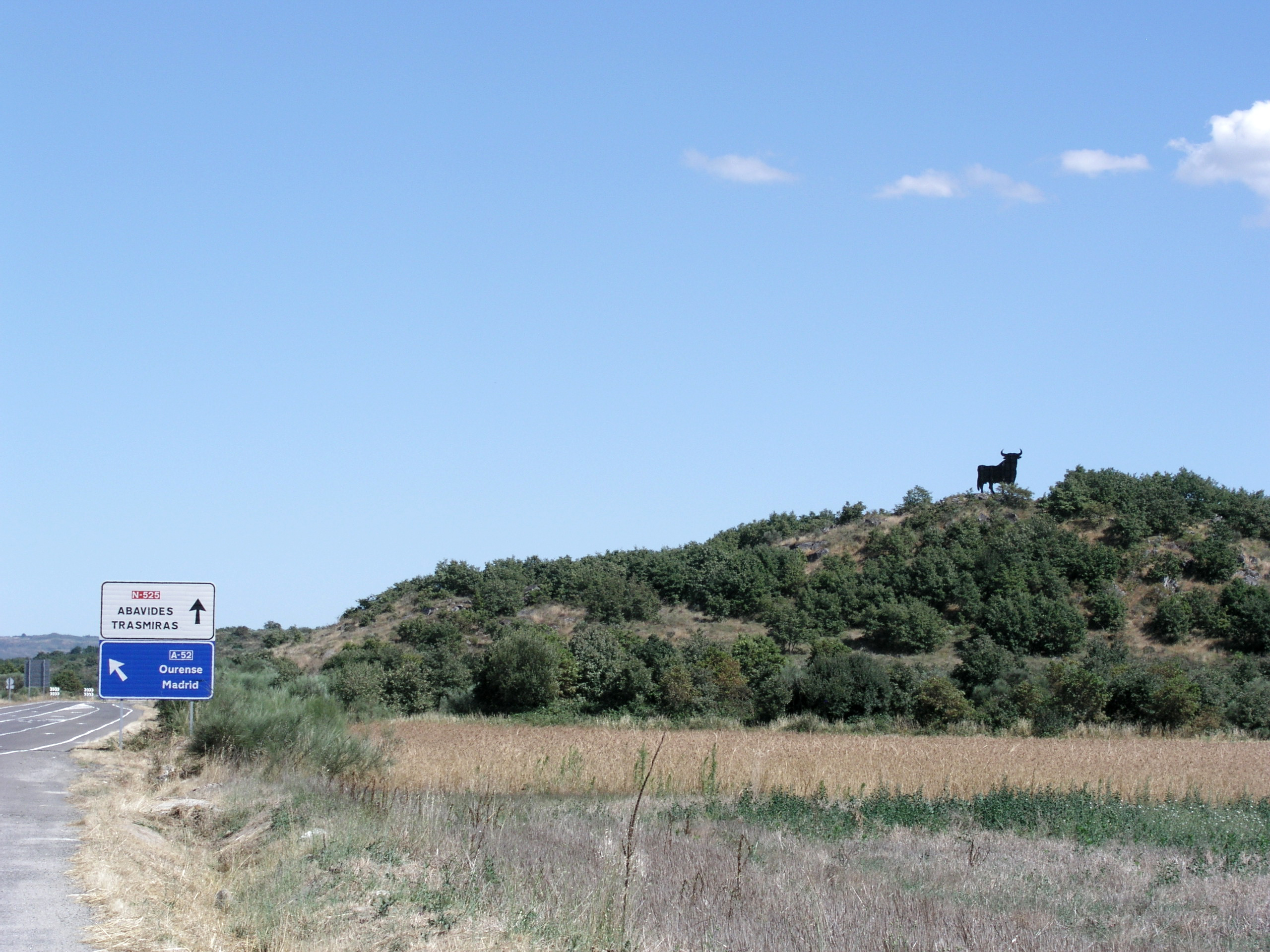 Osborne bull, A-52, near Xinzo de Lima, Spain